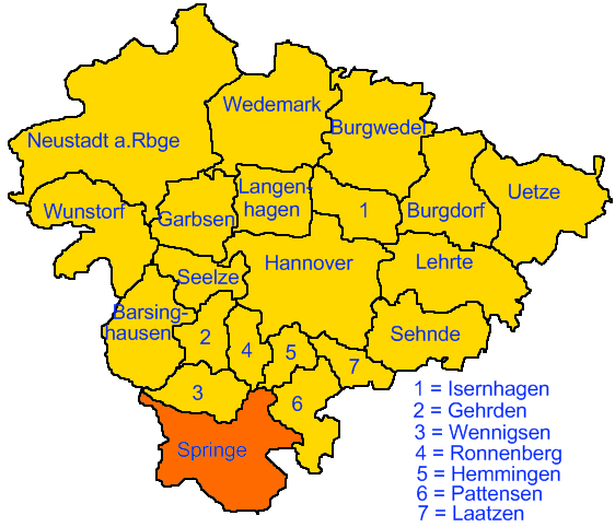 Location of Springe in Region Hannover